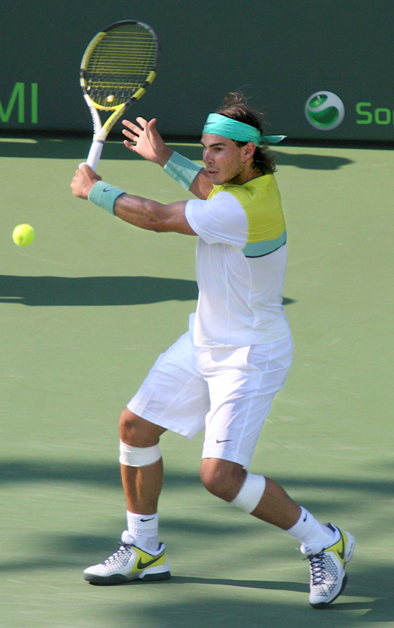 Rafael Nadal at 2009 Sony Ericsson Open, Miami, Florida, United States